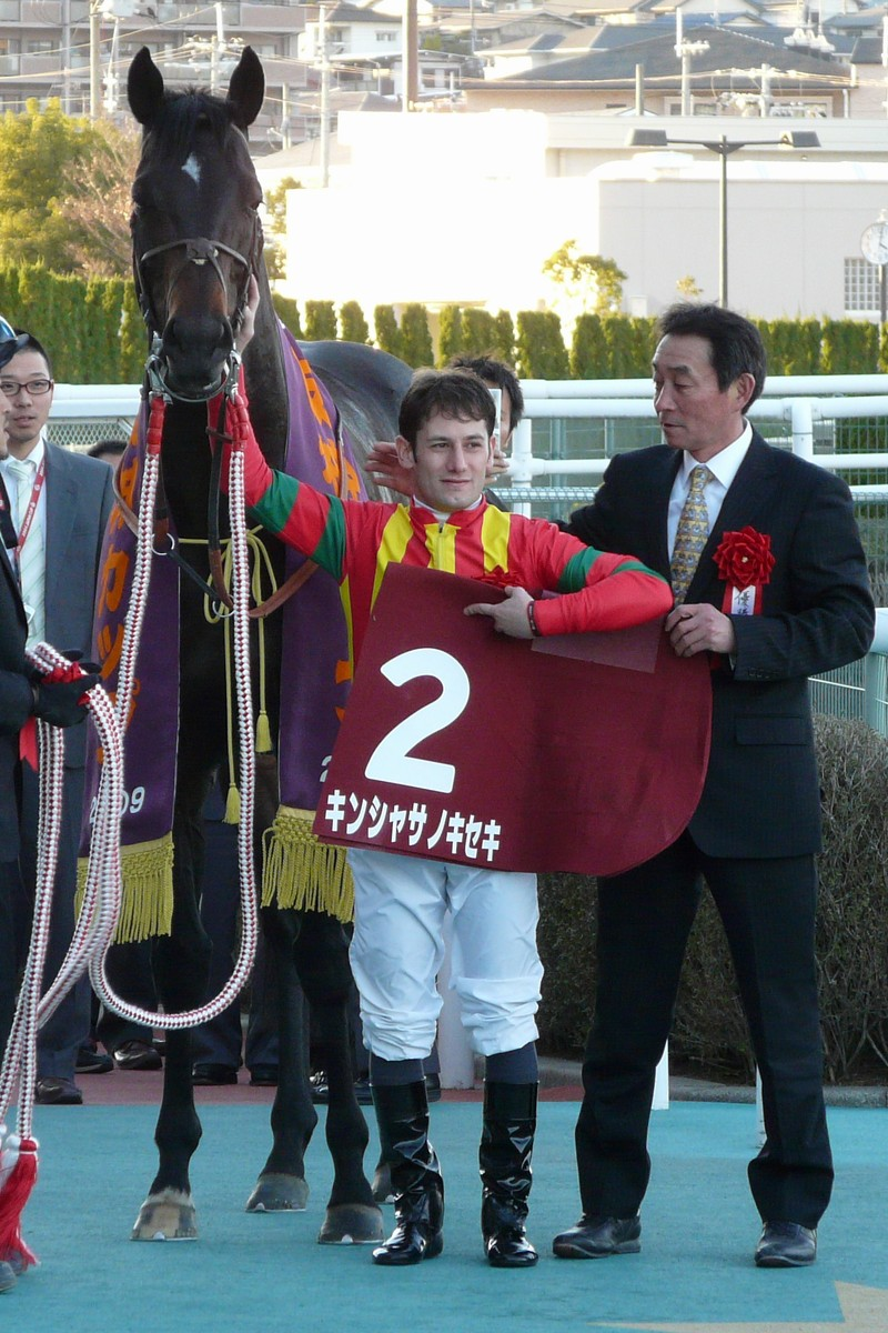 Mirco Demuro